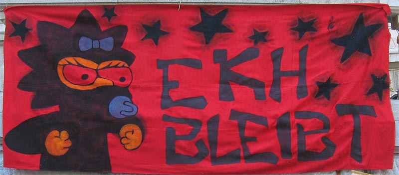 Picture of a transparent - fotographed at a public action to keep the squatted house Ernst Kirchweger Haus - EKH autonomous.